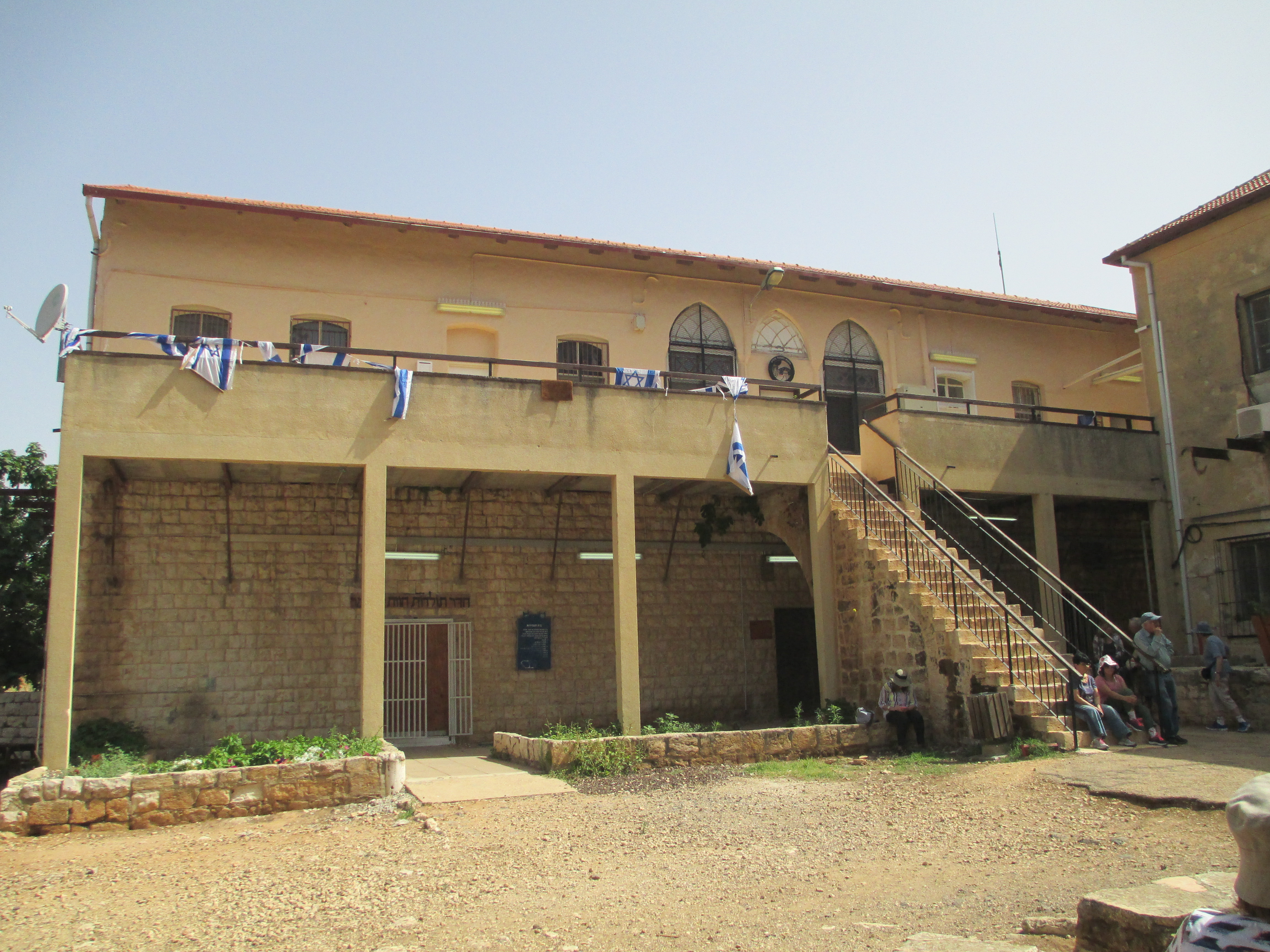 Hashomer farm